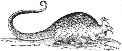 Basilisk. Source: Ulisse Aldrovandi, "Serpentum et draconum historia", 1640. 15:21, 13 September 2005 Male1979 426x180 (17875 bytes) (found in :de:Basilisk PD Source: Ulisse Aldrovandi, "Serpentum et draconum historia", 1640)